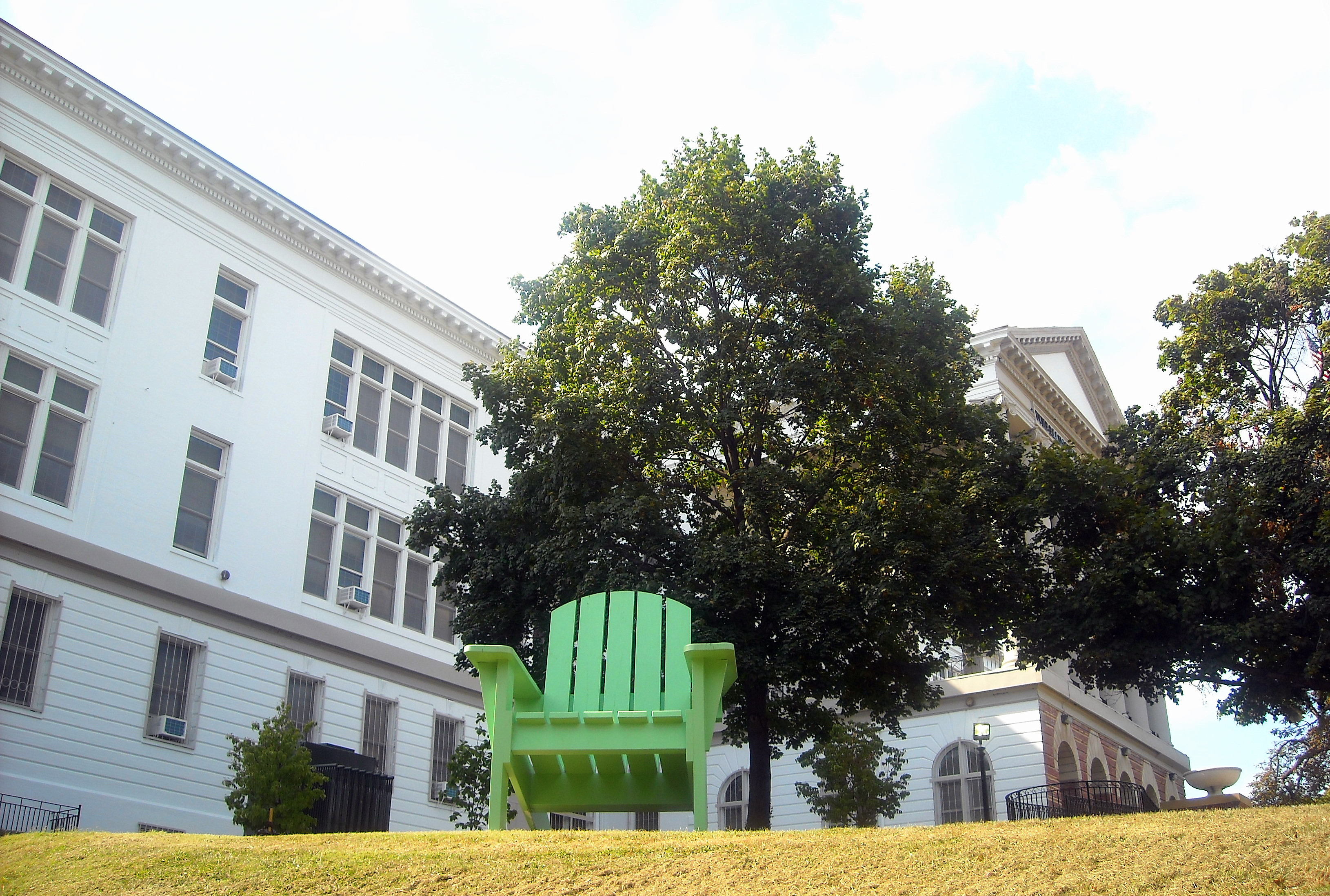 The Duke Ellington School for the Arts, also known as Western High School, at 35th and R Streets, NW in the Georgetown neighborhood of Washington, D.C. The building is listed on the National Register of Historic Places. The chair looks normal size from this angle, but it's outdoor artwork and is 10 feet tall.